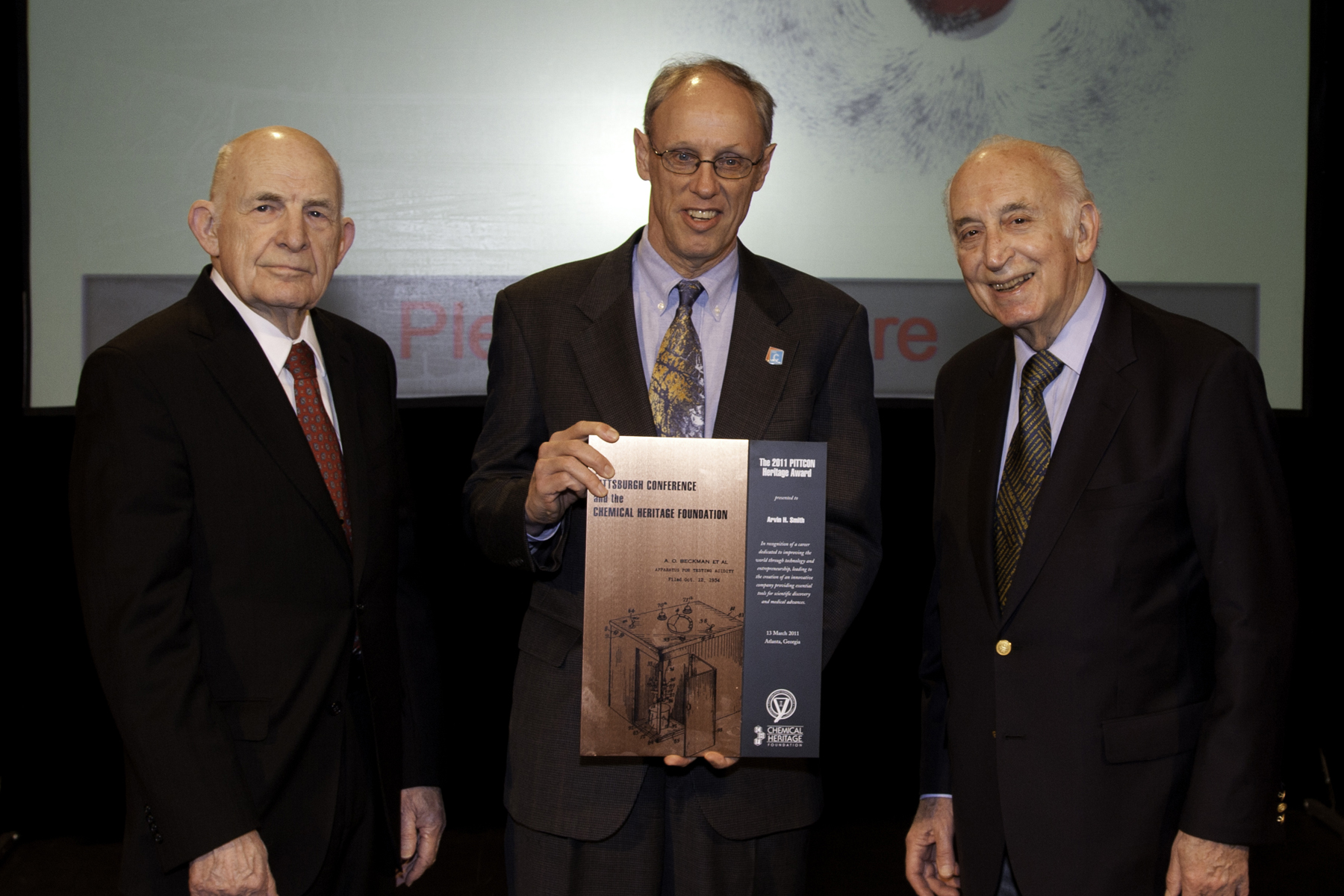 Arvin Smith, Thomas R. Tritton, and George Hatsopoulos. Arvin Smith (left) and George Hatsopoulos (right) receiving the 2011 Pittcon Heritage Award, presented by Thomas R. Tritton (center), head of the Chemical Heritage Foundation. The award is jointly sponsored by the Pittsburgh Conference on Analytical Chemistry and Applied Spectroscopy (Pittcon) and the Chemical Heritage Foundation. George Hatsopoulos, John Hatsopoulos, and Arvin Smith together built one of the world's leading producers of analytical instruments: Thermo Electron.